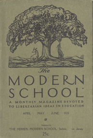 Spring, 1920 Modern School magazine.